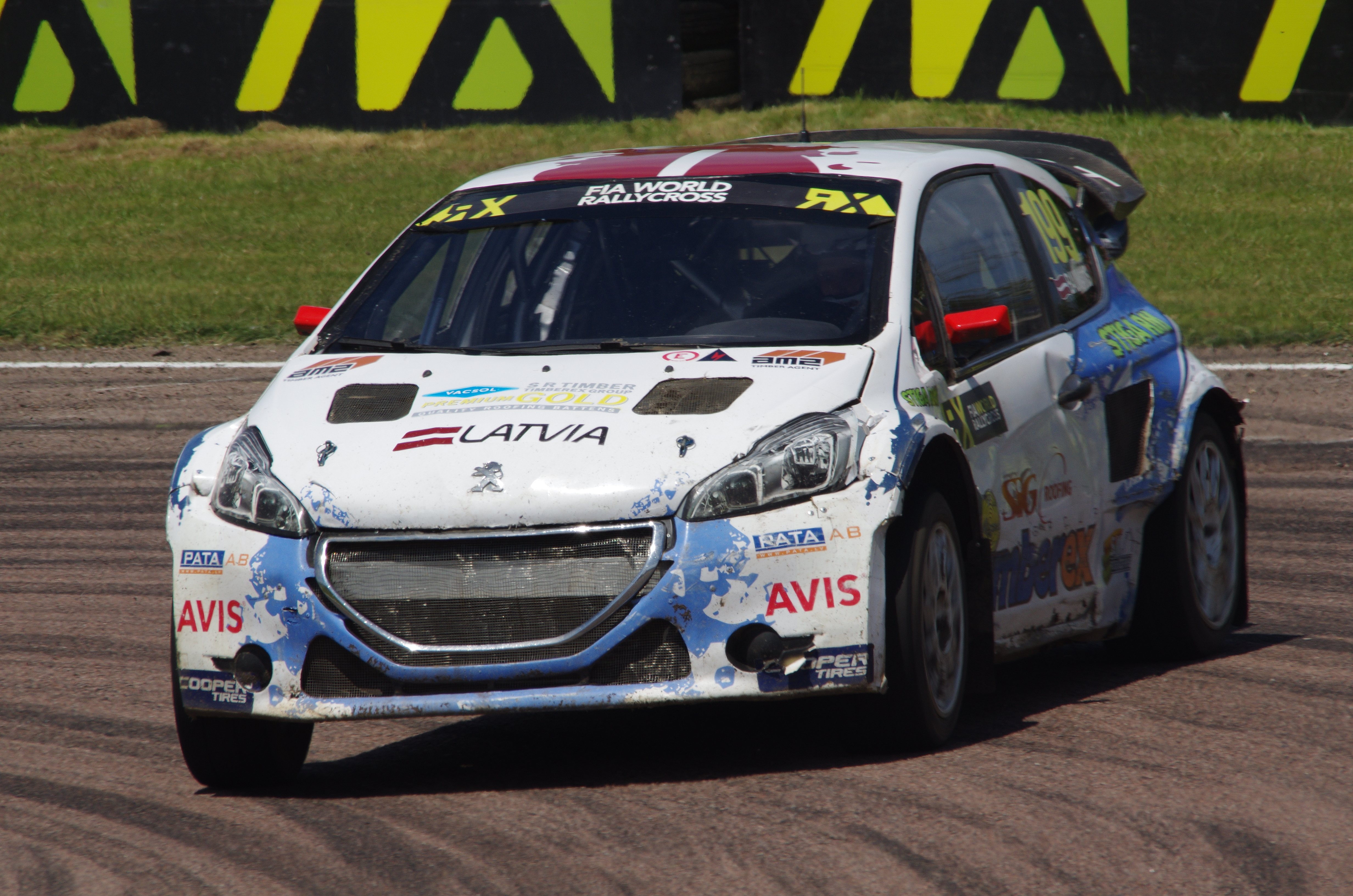 At the hairpin. Sunday 24th May, 2015. Round 4, World Rallycross Championship.